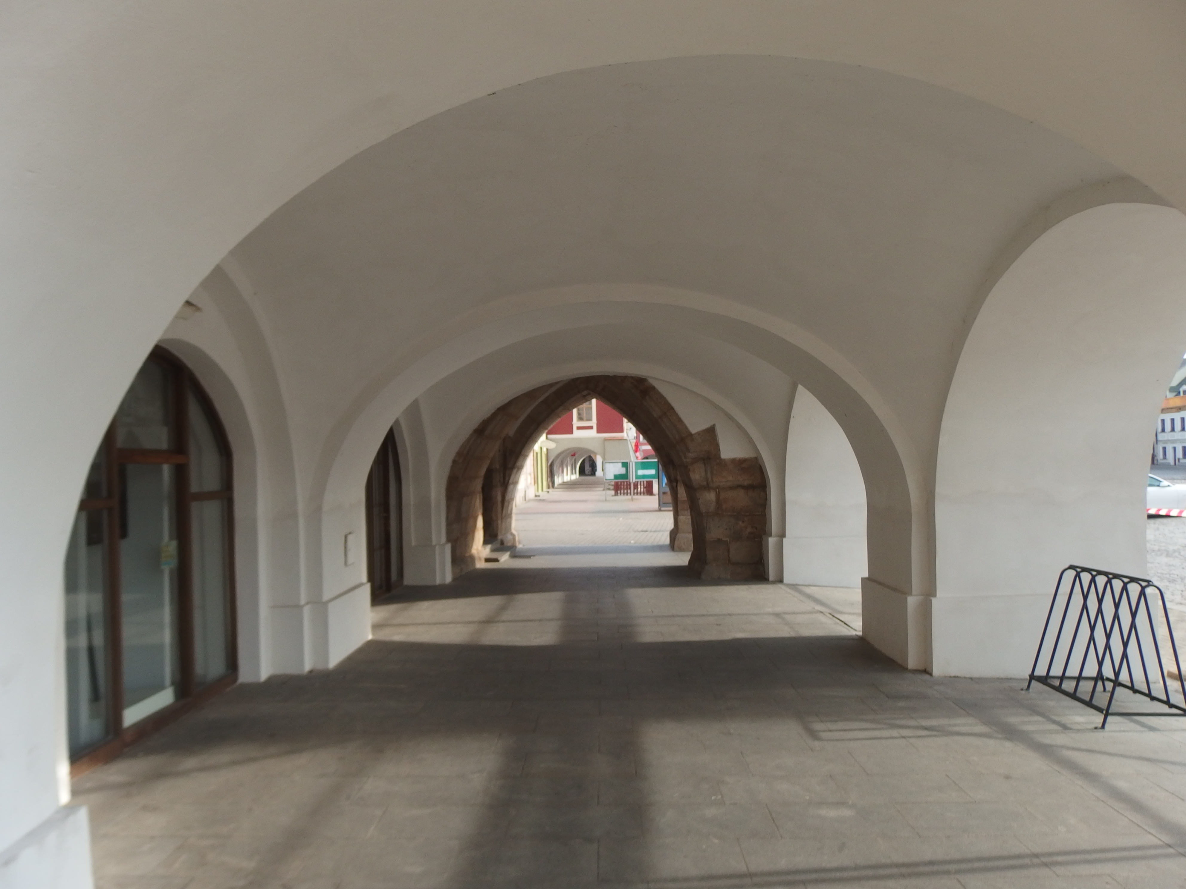 Kadaň, Chomutov District, Czech Republic. Town hall.